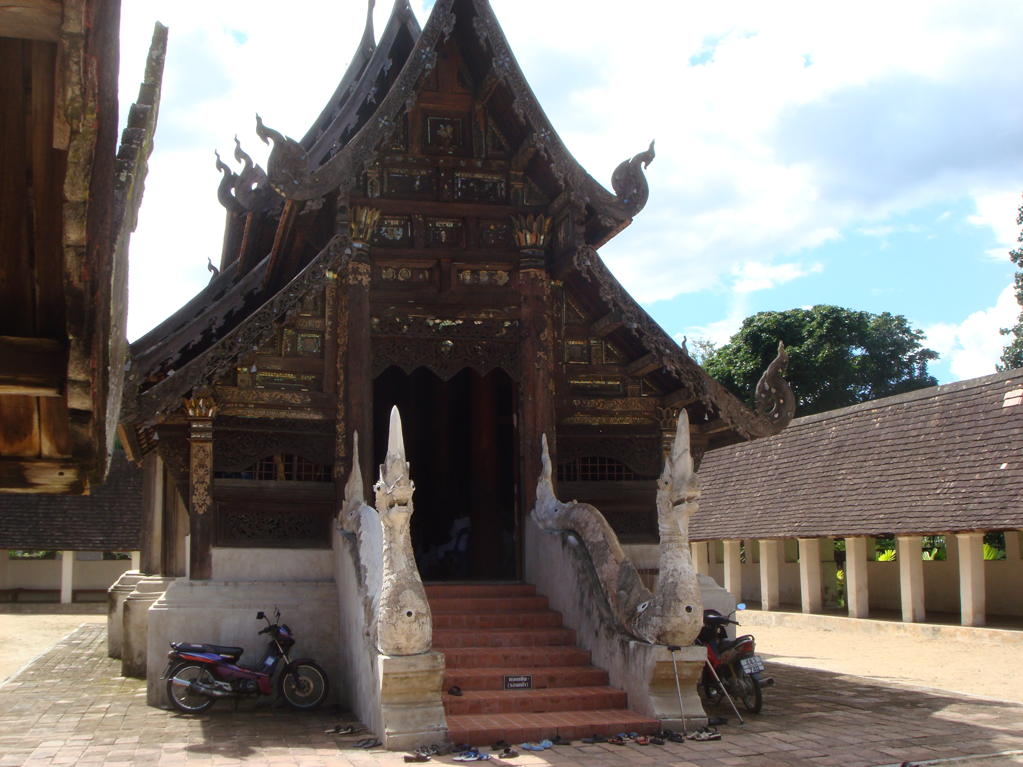 Wat Thon Kwain (or Wat Ton Khwen, also Wat Intarawat, Wat Inthrawat). Lanna wooden architecture. Located near Hang Dong, south of Chiang Mai. Built in 1858.